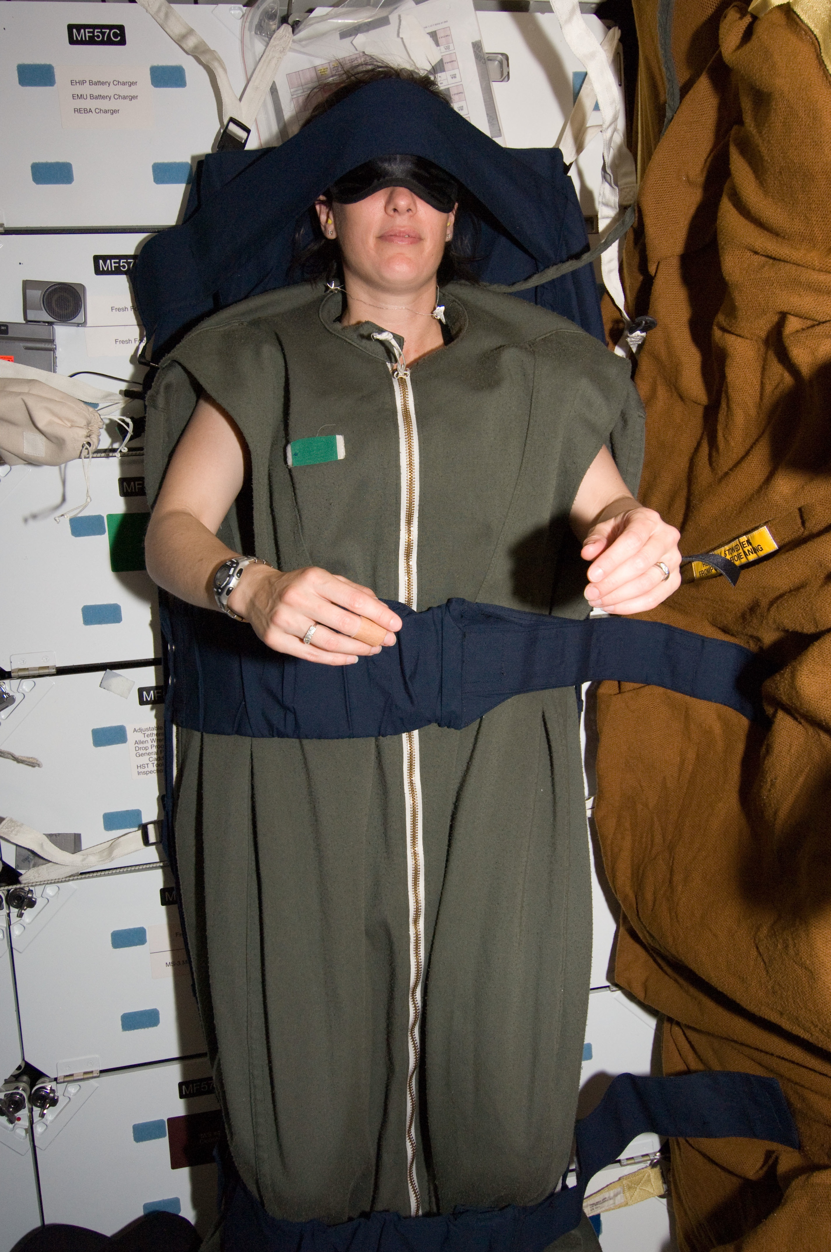 Astronaut Megan McArthur, STS-125 mission specialist, rests in her sleeping bag, which is attached to the lockers on the middeck of the Earth-orbiting Space Shuttle Atlantis at the end of flight day eight.